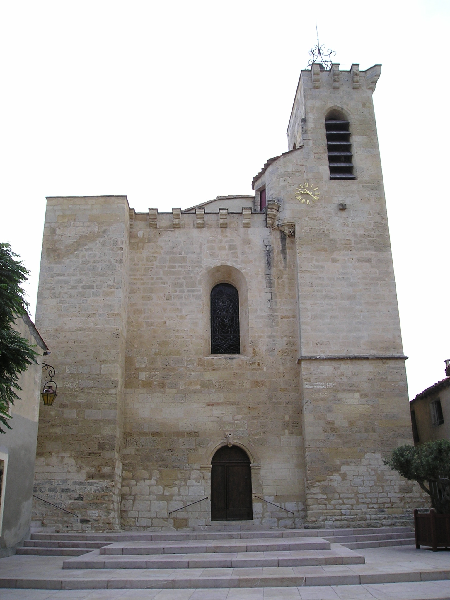 In Hérault, France, the church of Baillargues.